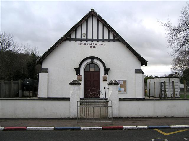 Glynn Village Hall Built in 1931, it is located close to the village centre.